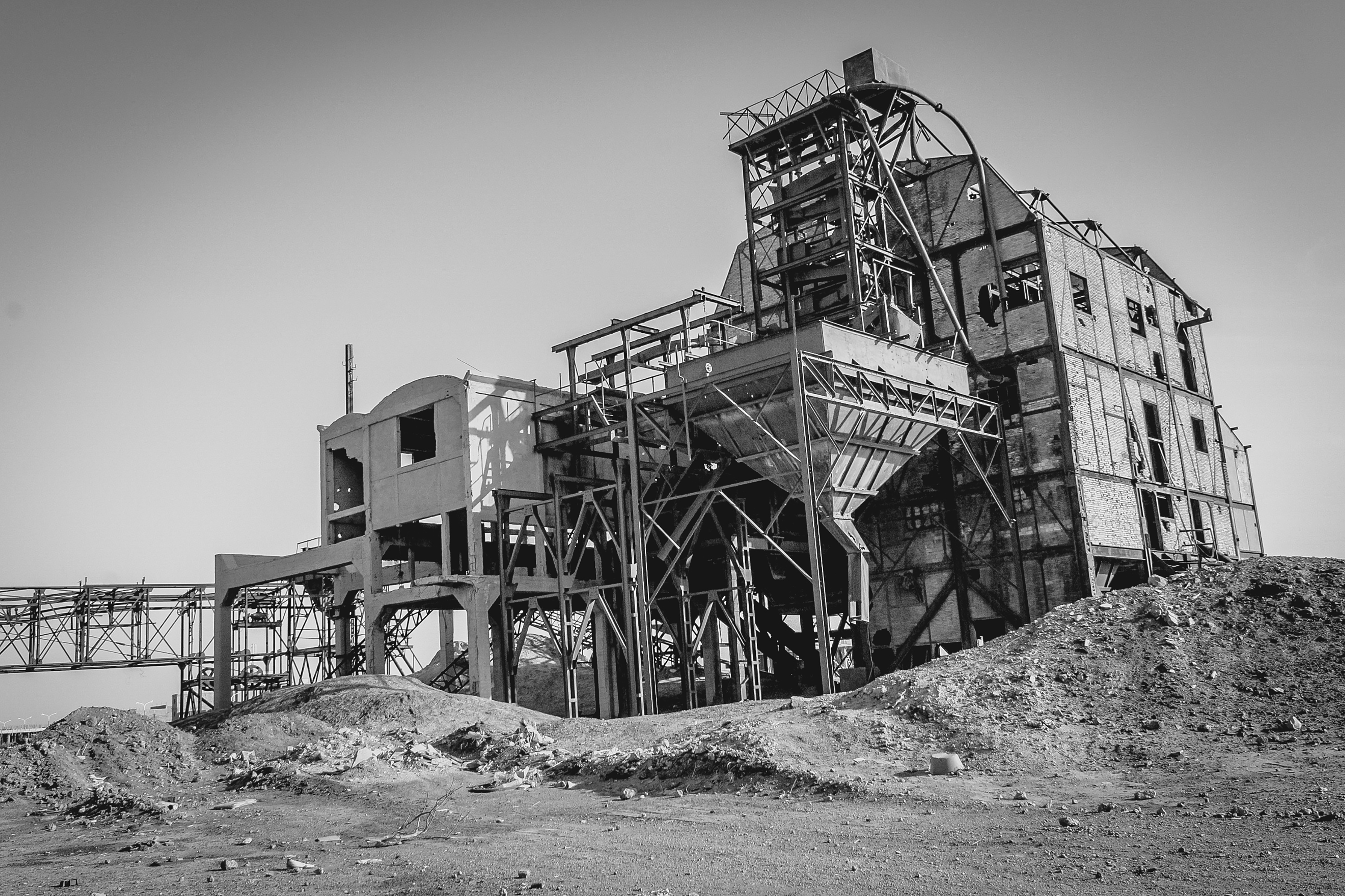 The Mine Factory located in Kenadsa, existed from the colonial period , built by the French and made the native people work in.